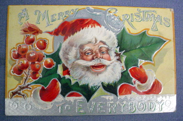 Christmas postcard date unknown, circa 1900.